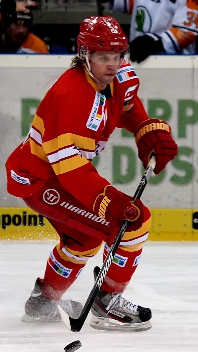 Professional icehockey player Colin Long skating with the puck action shot